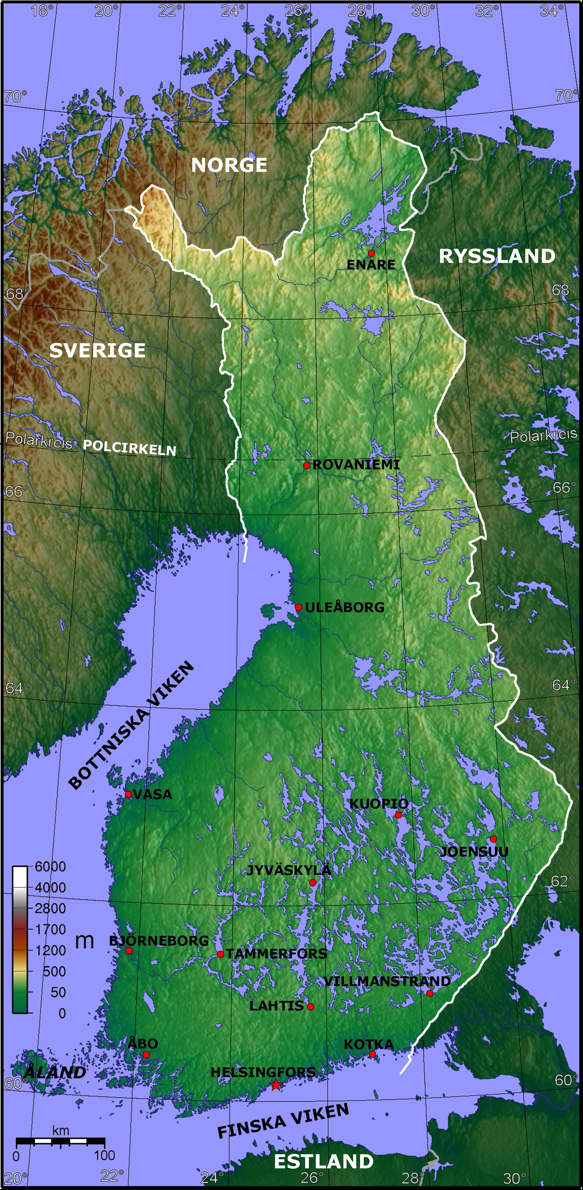 Topographic map of Finland (Swedish version), filled in version of "Fintopo blank.jpg" at Wikimedia commons.